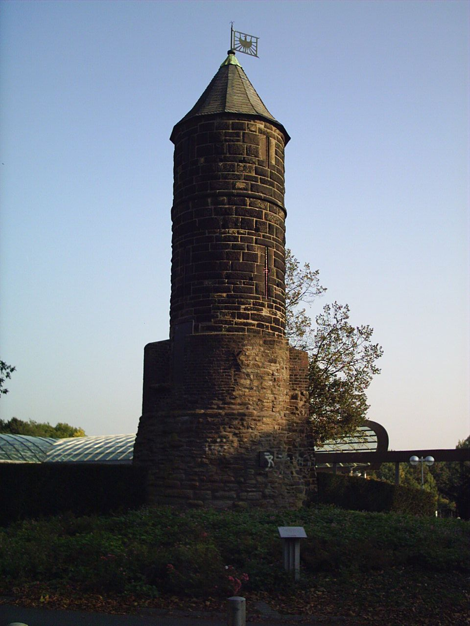 Steinerner Turm, Dortmund, Germany check usage